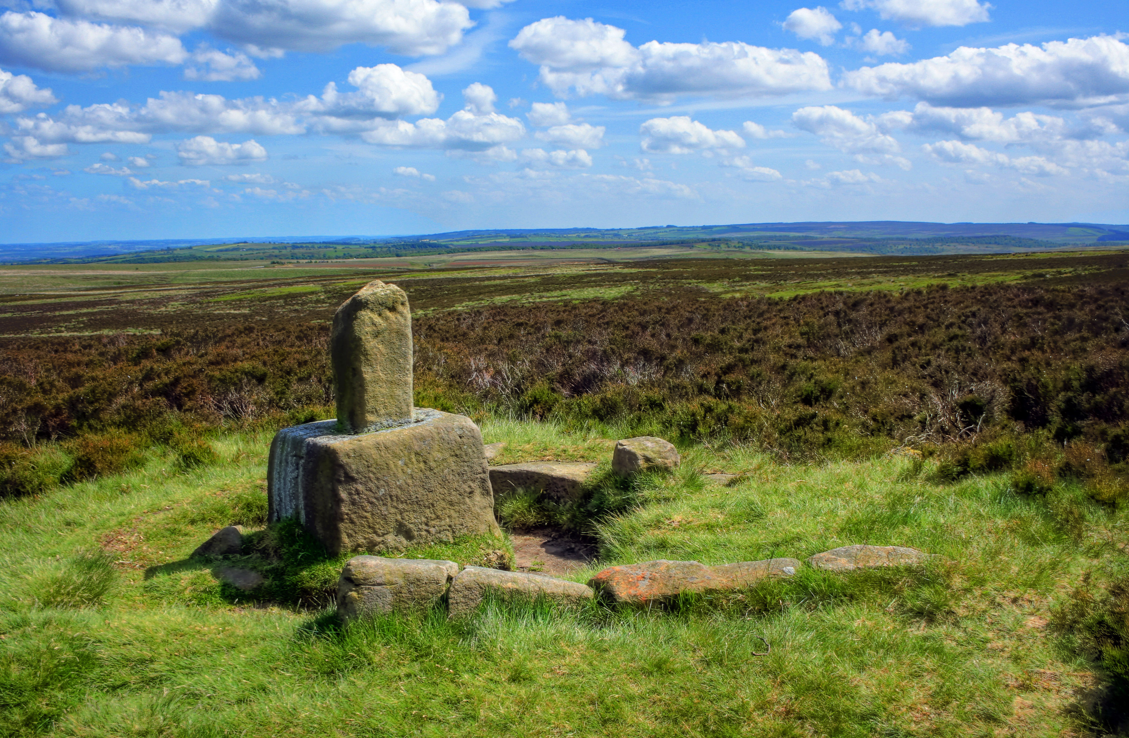 Lady's cross is a scheduled National monument No 23340. It is a Medieval wayside and boundary cross which is recorded as being in existence in 1263. The cross marks both an ancient crossroads on Big Moor in the Derbyshire Peak District National Park and the former estate boundary of Beauchief Abbey. The Map Grid Reference is SK 27237823.